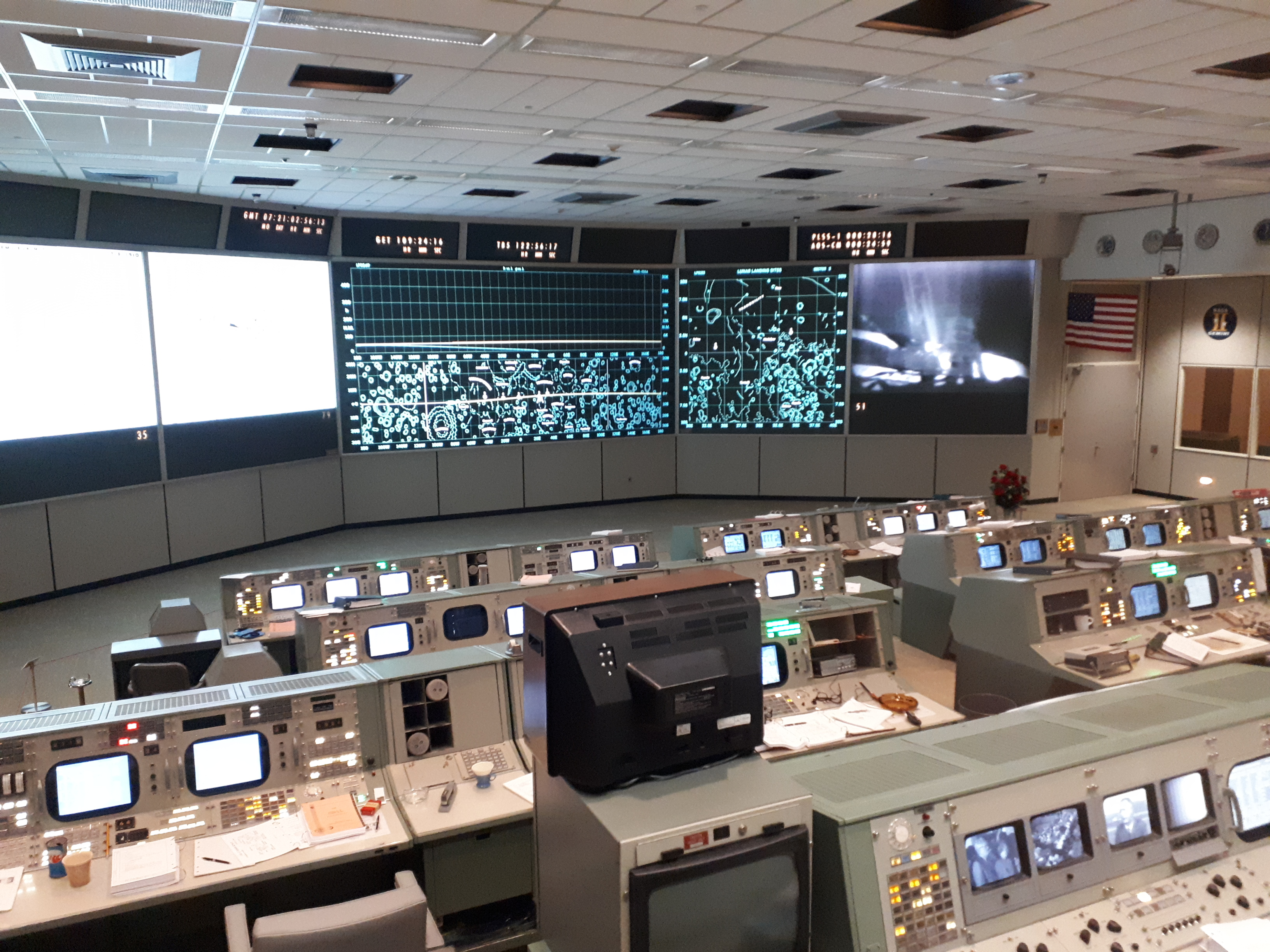 Mission Operations Control Room 2 in 2019, after restoration to its 1969 appearance.